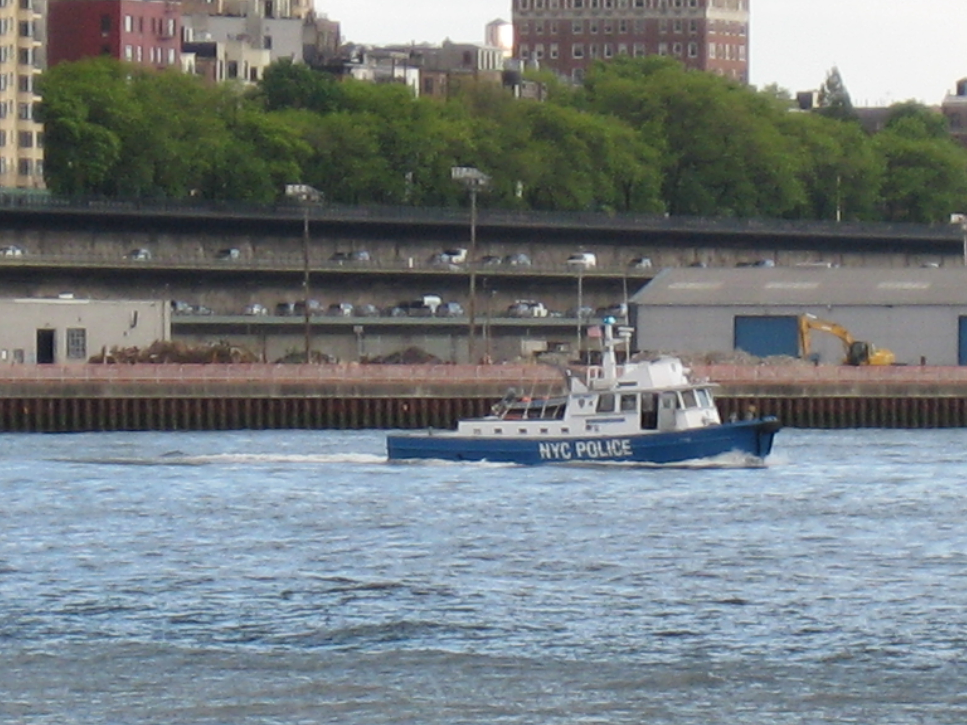 Police boat and the BQE